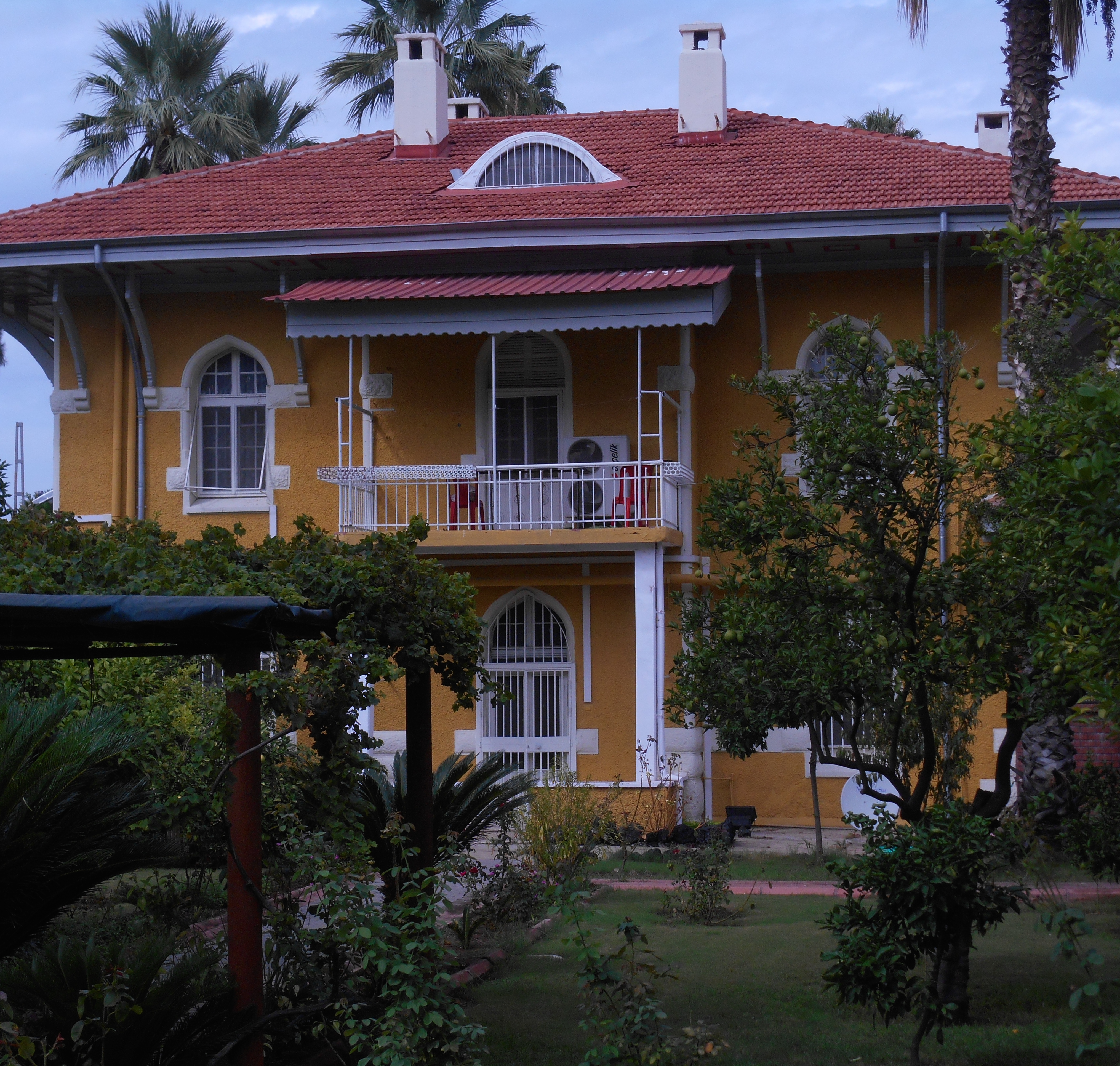 Residence at Adana Gar